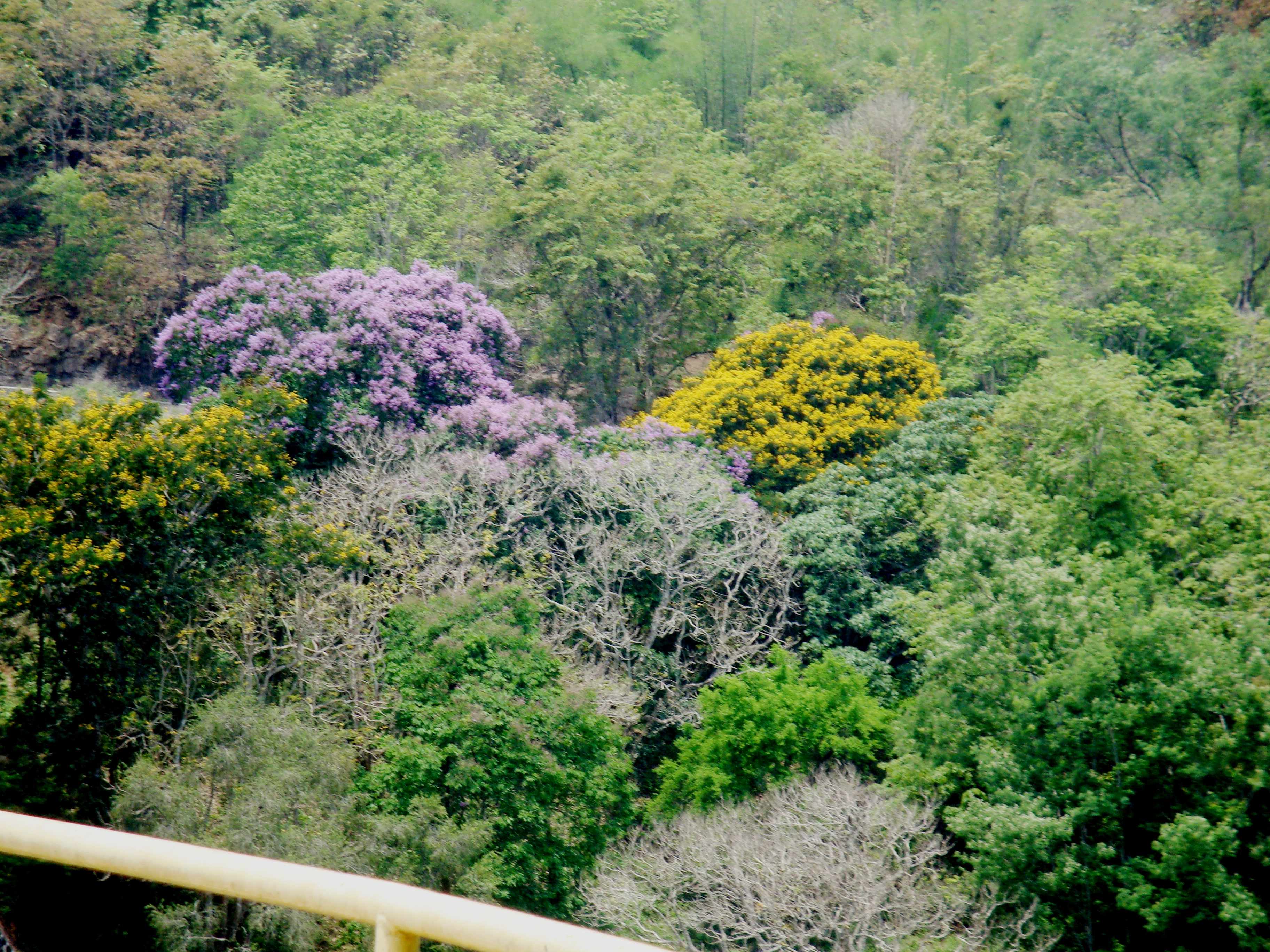 Inside click showing the beauty of Parambikulam forest